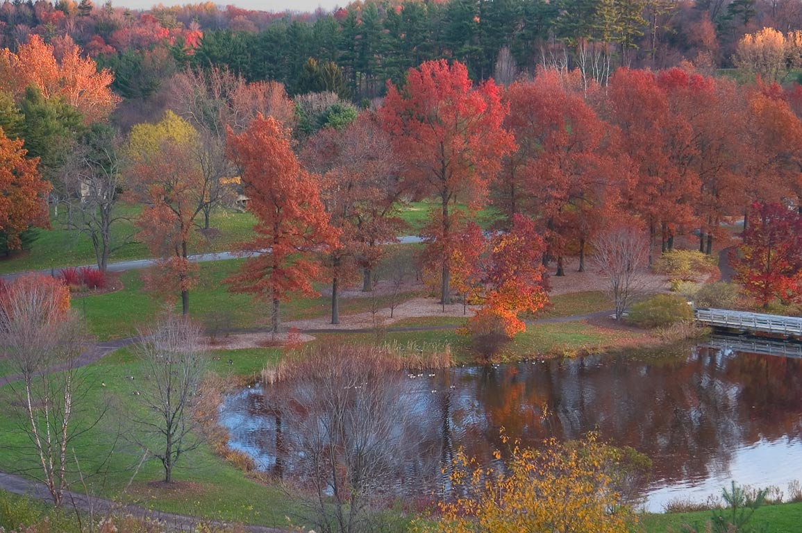 Houston Pond of F. R. Newman Arboretrum. Permission: OTRS Ticket#: 2006061810007652